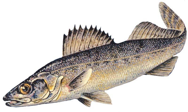 PD but requires NOAA/GLERL attribution